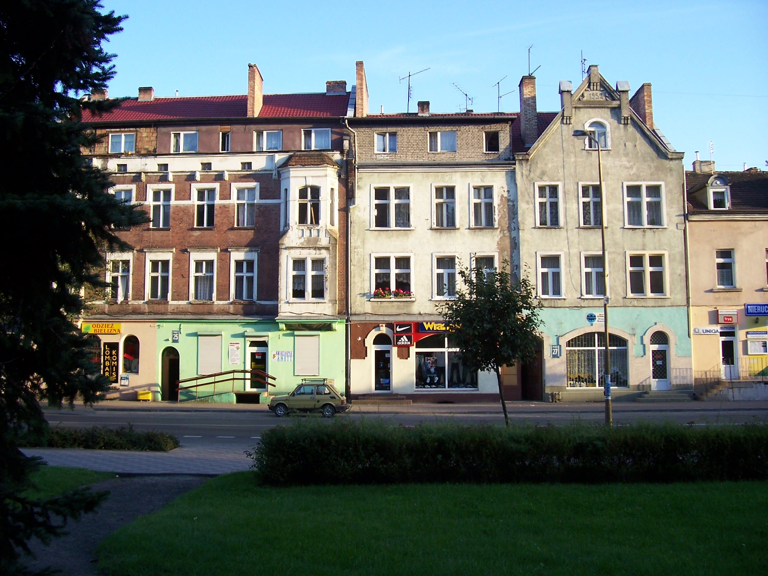 CHOSZCZNO